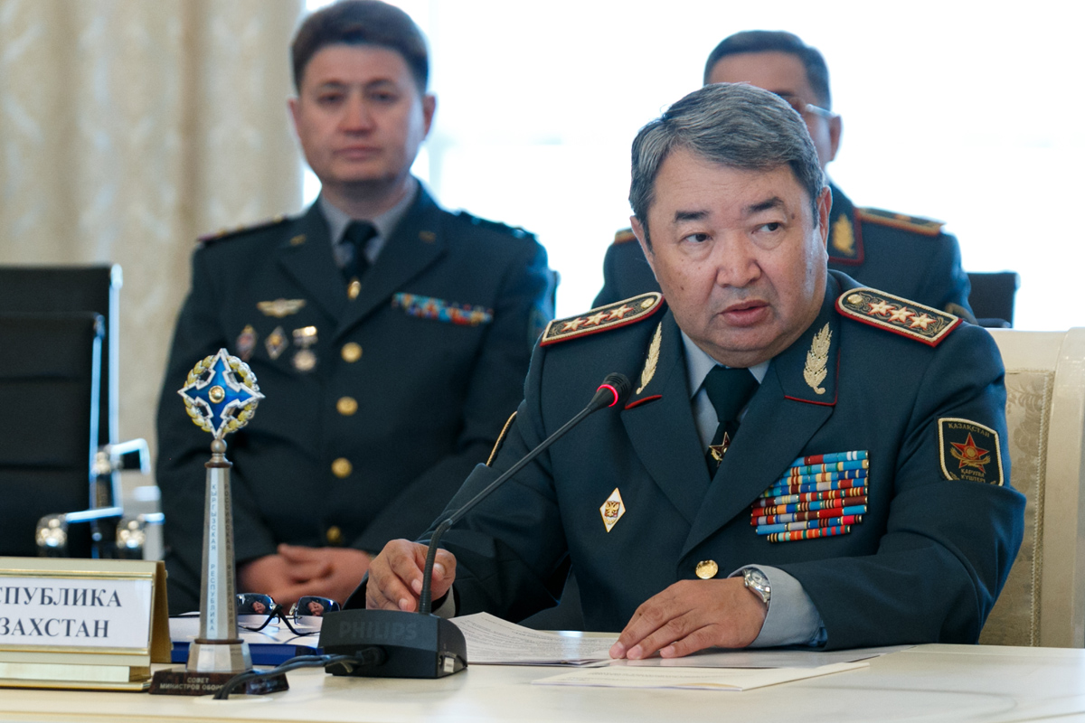 Visit of the Minister of Defense of the Russian Federation, General of the Army Sergei Shoigu to the Republic of Kazakhstan